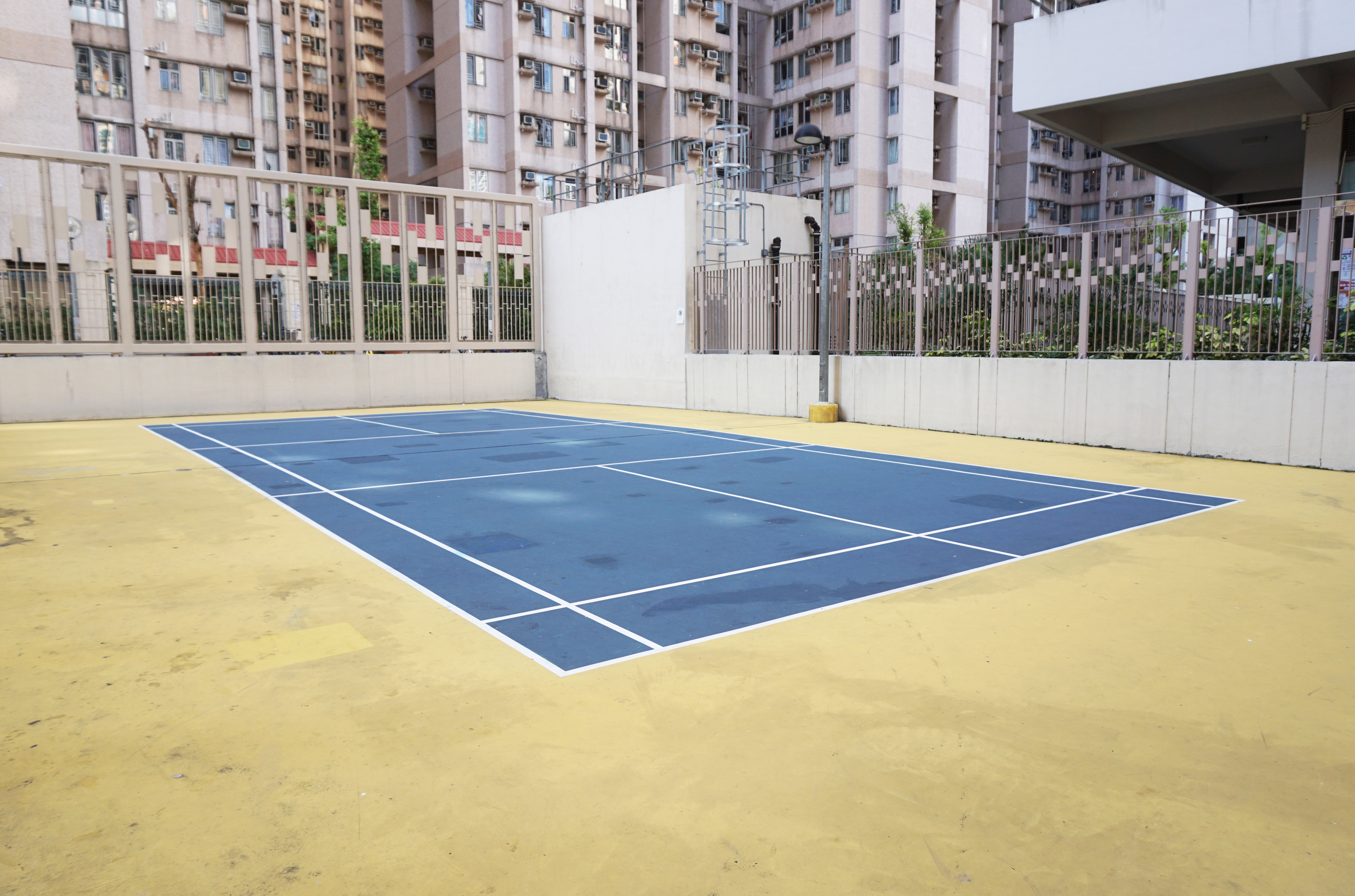 Yee Ming Estate in Tseung Kwan O, Hong Kong.